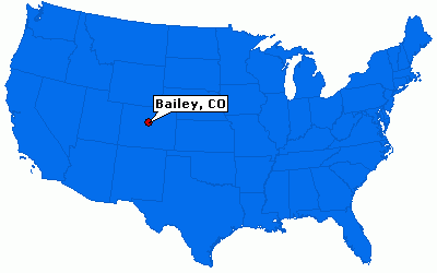 The location of Bailey, Colorado on a United States map.